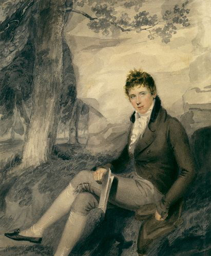 Portrait of Henry John Temple, 3rd Viscount Palmerston (1784-1865)